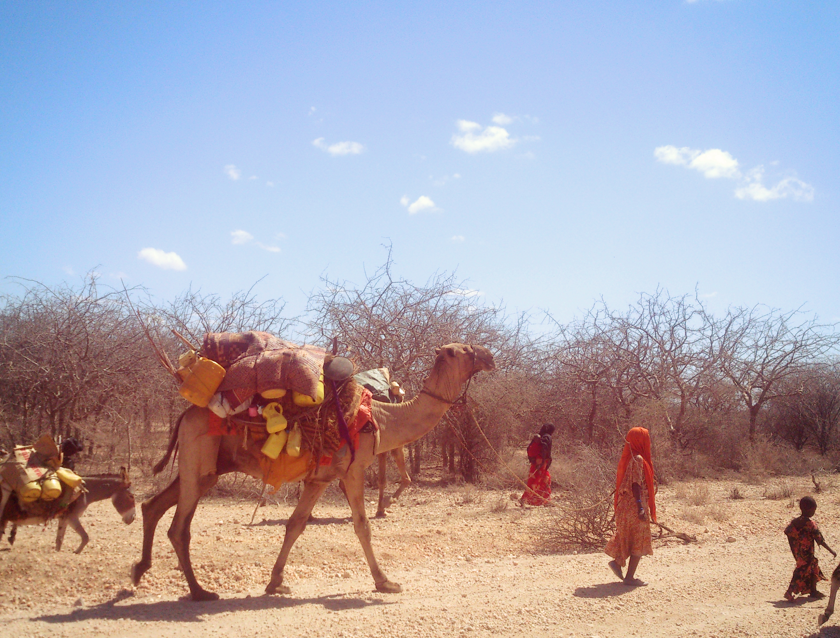 A caravan that moves miles away under the watch of Borana women in Merti, Isiolo, Kenya. This is an image of "African people at work" from Kenya